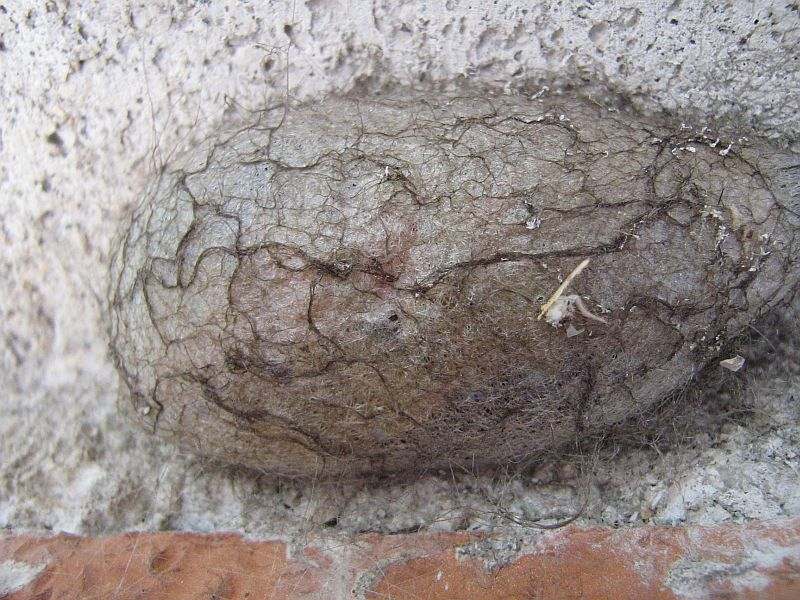 Cocoon of Saturnia pyri, Giant Peacock Moth